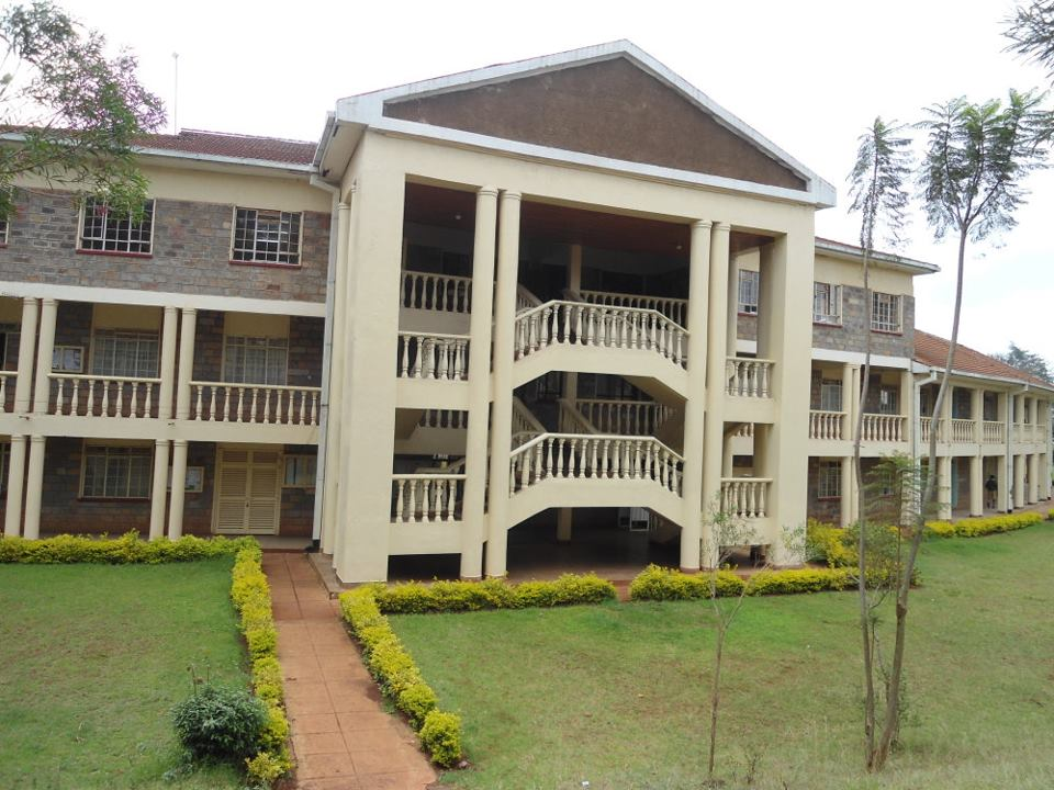 The administration block at Alliance High School.